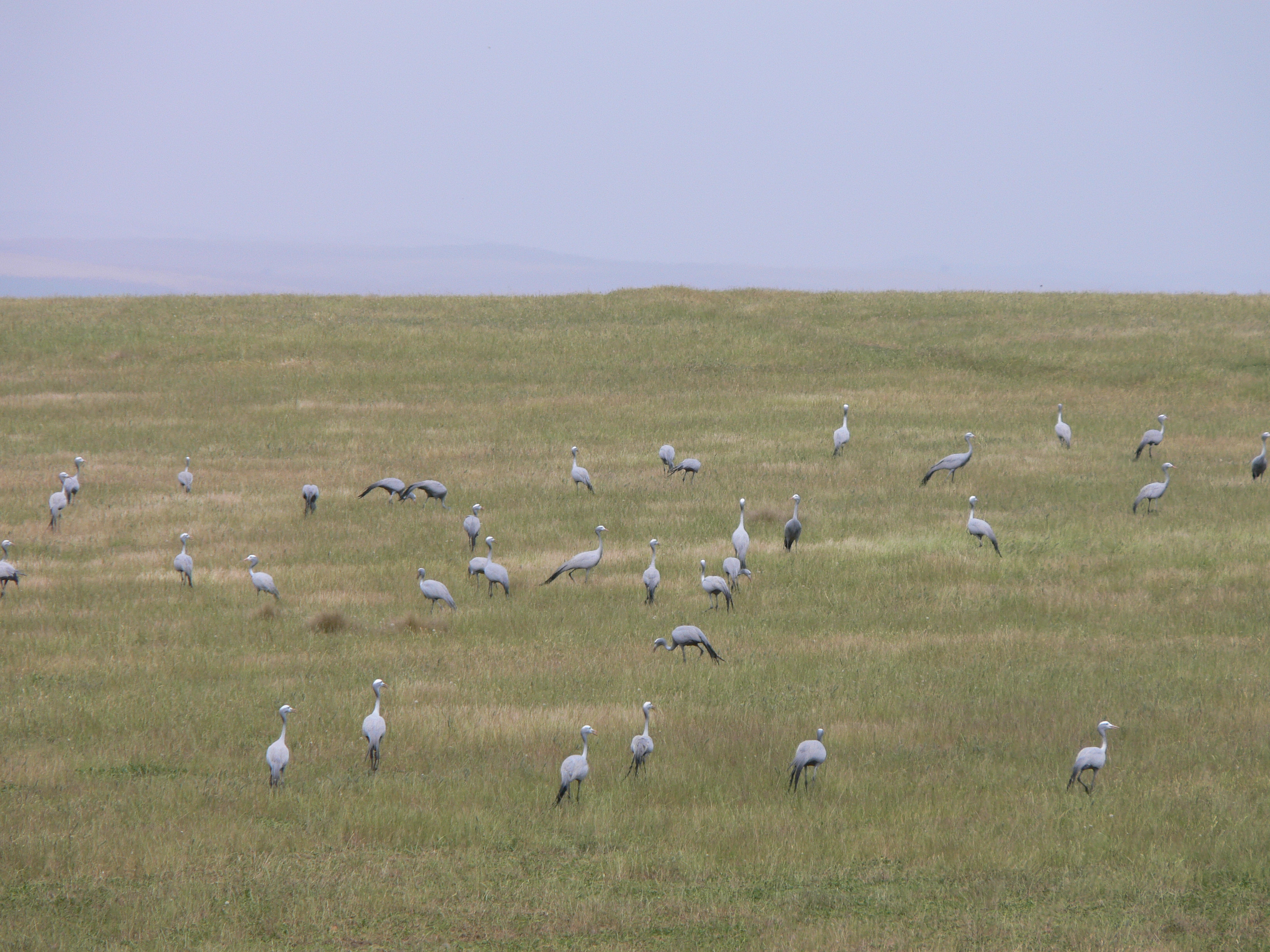 Blue Cranes in the Bontebok National Park, Western Cape, South Africa